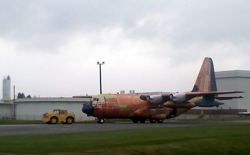 A "newborn" KC-130J Super Hercules, being towed from its assembly point at Lockheed-Martin in Marietta, Georgia. Note the external fuel pods on the wings, which reveal it's a KC-130J and not a standard C-130J. Its primary mission will be aerial refueling.